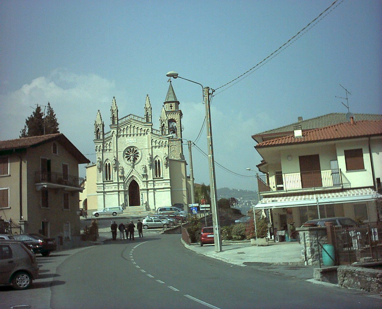 View of Capizzone, Bergamo, Italy